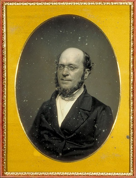 Daguerreotype of American theologian Henry James, Sr (1811-1882). Dated "1855?" by source. bMS Am 1092.9 (4597.2), Houghton Library, Harvard University